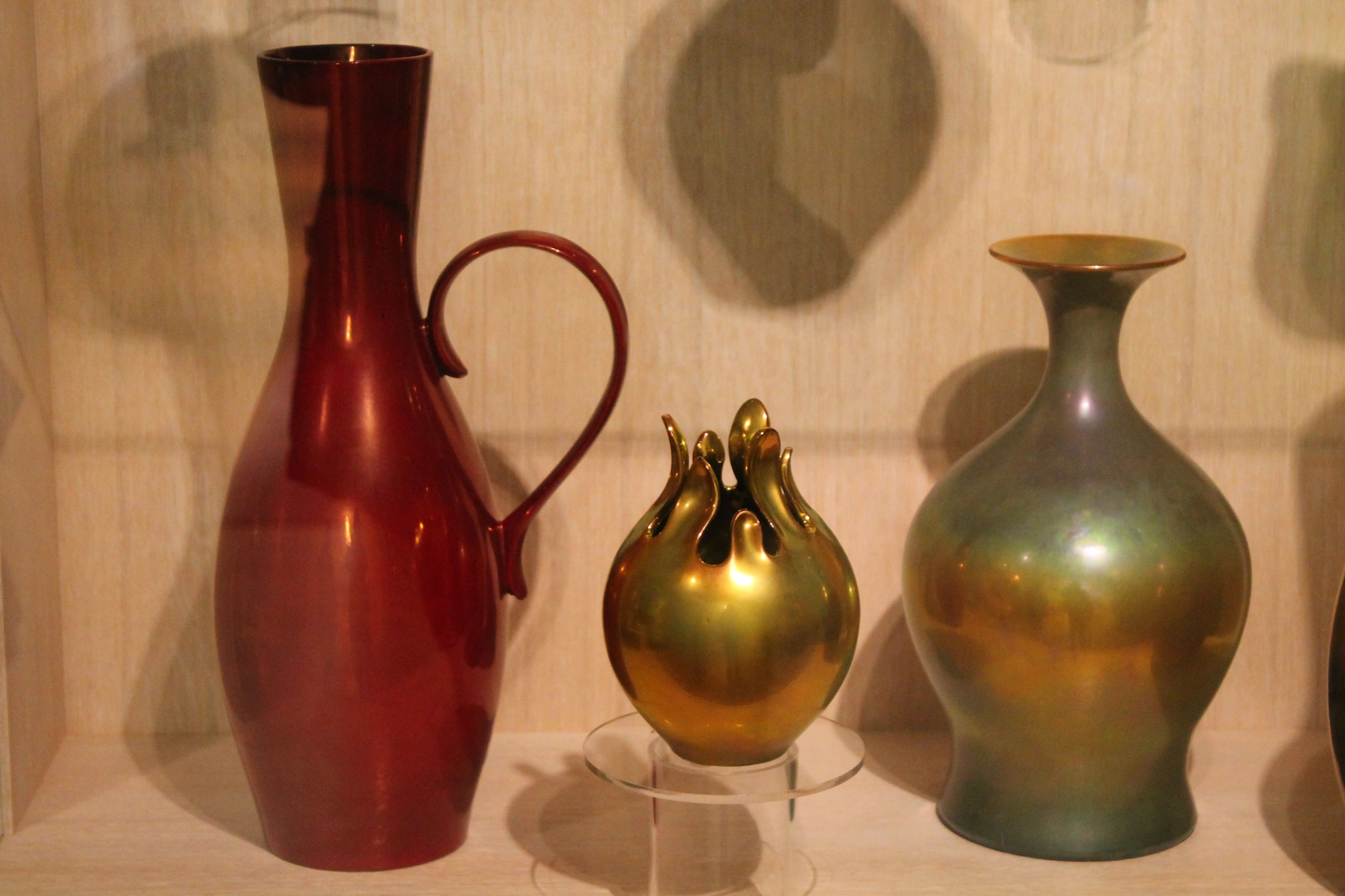 Products from the Zsolnay factory on the historical exhibition in the Zsolnay Cultural Quarter, Pécs, Hungary. Designer: Eva Zeisel